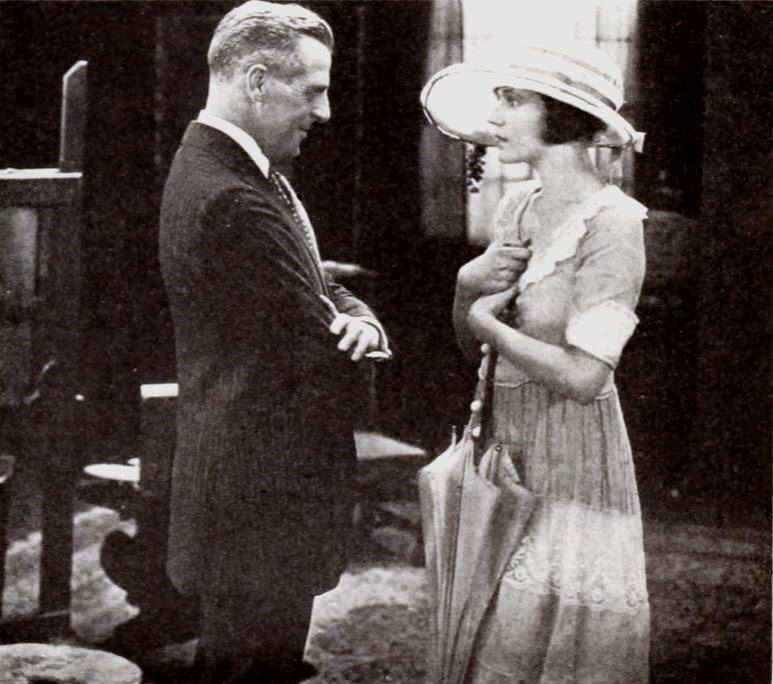 Still from the American film Sinners (1920) with an unidentified actor and Alice Brady, on page 71 of the April 24, 1920 Exhibitors Herald.